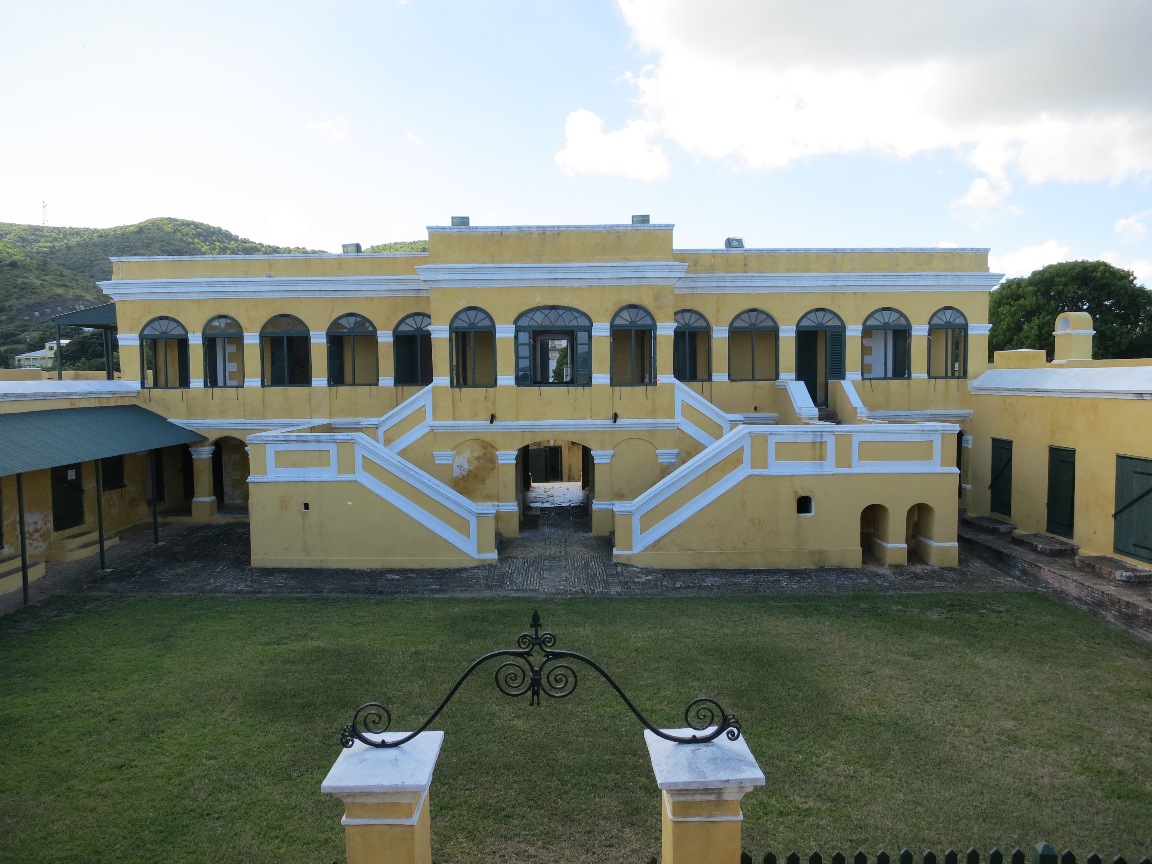 Christiansted National Historic Site in St. Croix, USVI.